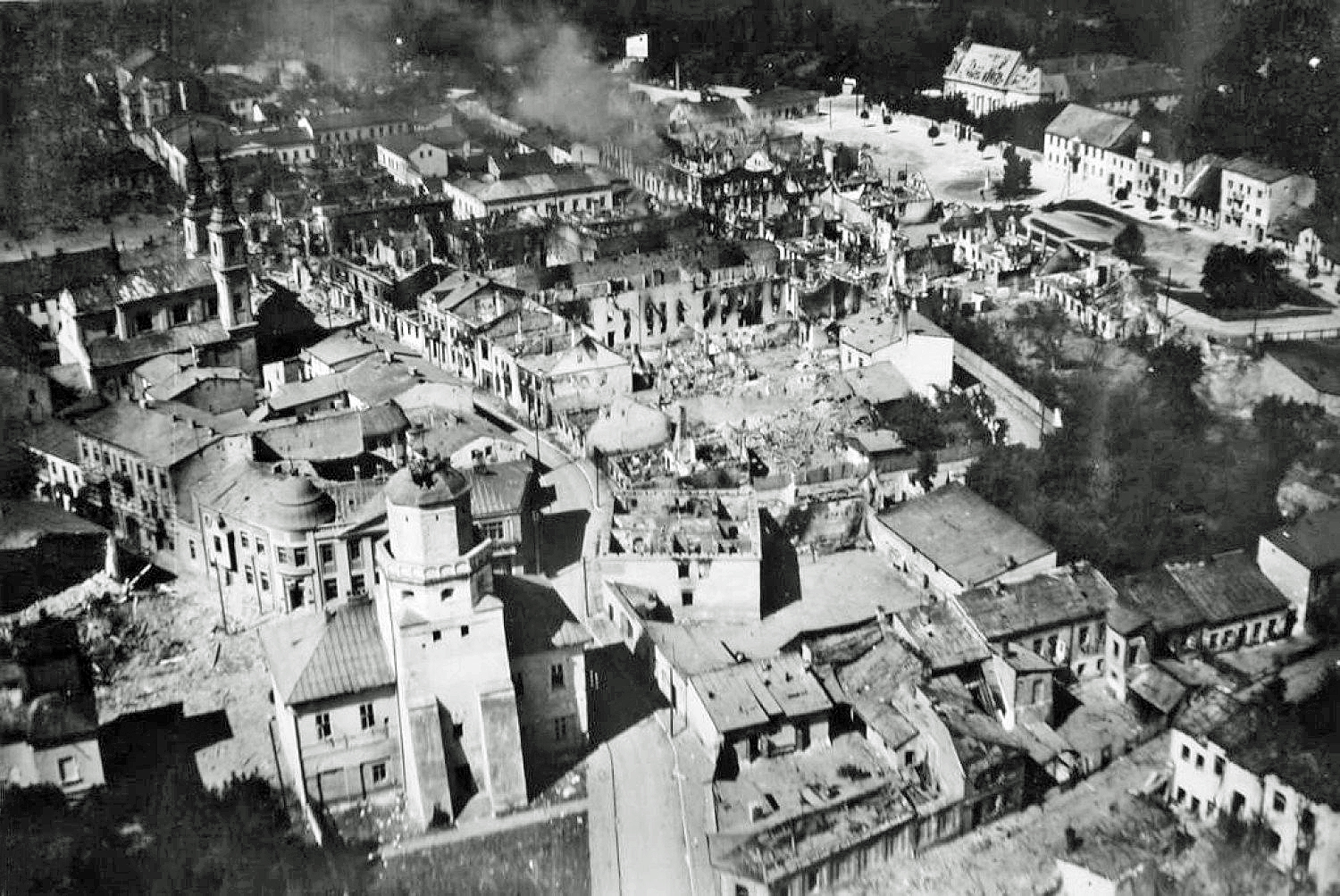 Wieluń after German Luftwaffe bombing the 1st of September 1939 (The first day of WW II). Photograph taken from an aeroplane.